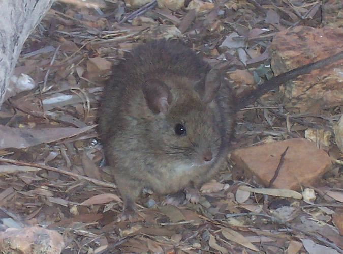 Greater Sticknest Rat (Leporillus conditor) in Alice Springs Park, Northern Territory, Australia